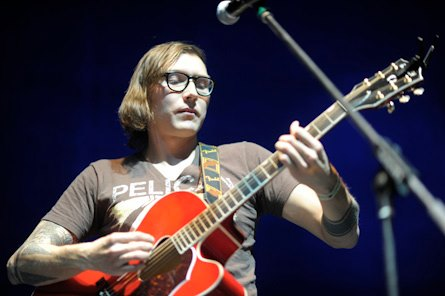 Josué Guijosa